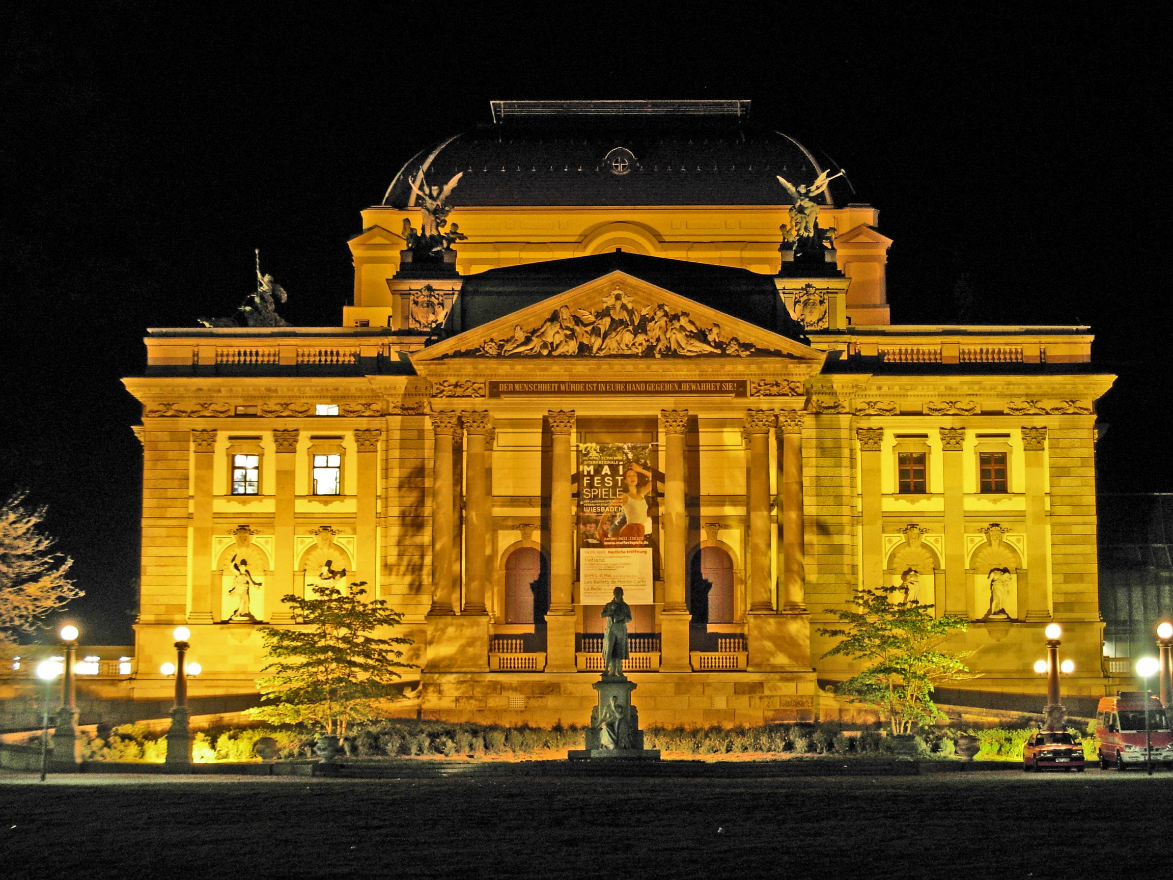 State Theatre of the German state Hesse in the capital Wiesbaden from the park Warmer Damm at the night